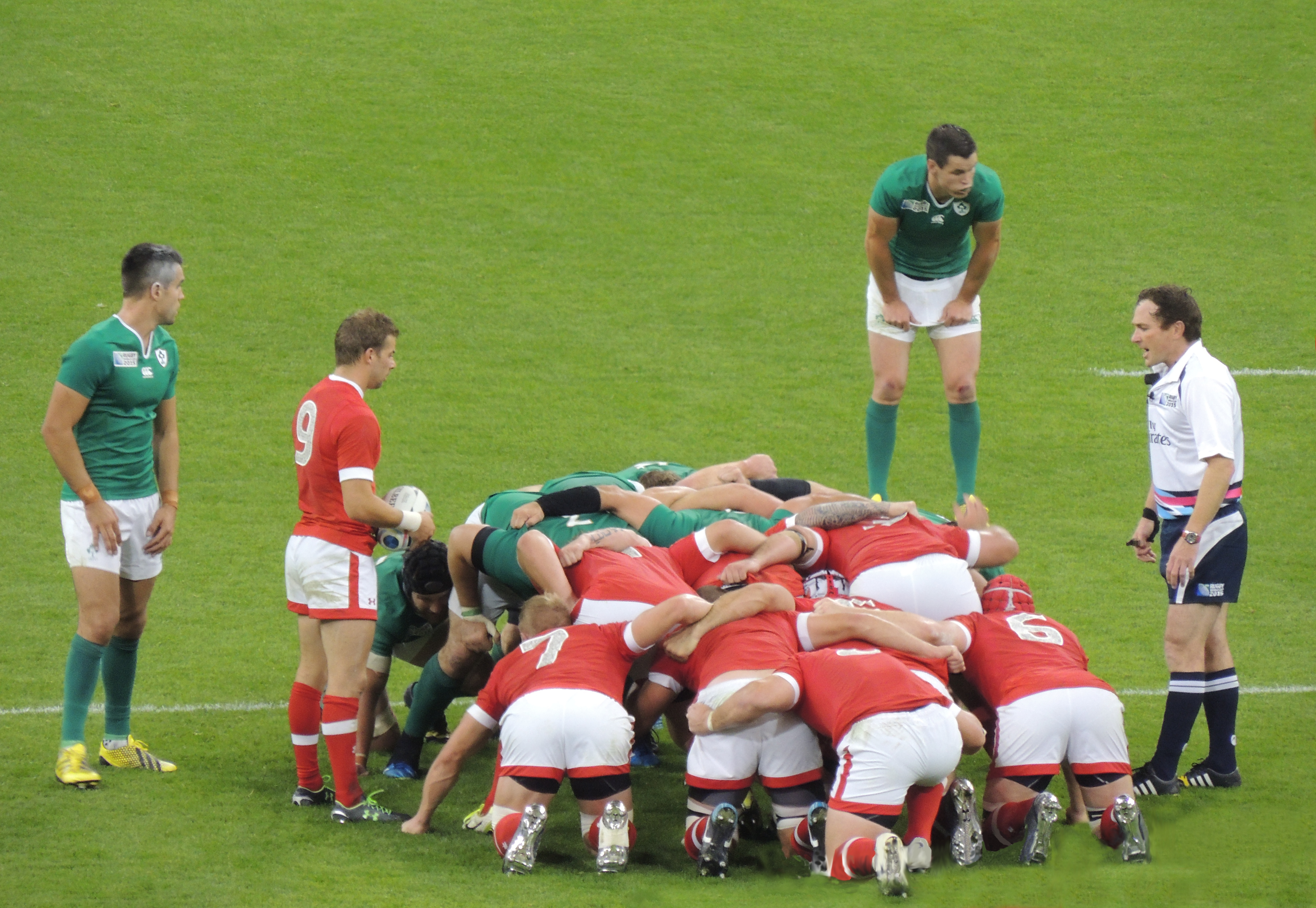 New Zealand rugby union referee Glen Jakcson in 2015 Rugby World Cup game Ireland vs Canada at Millennium Stadium in Cardiff.